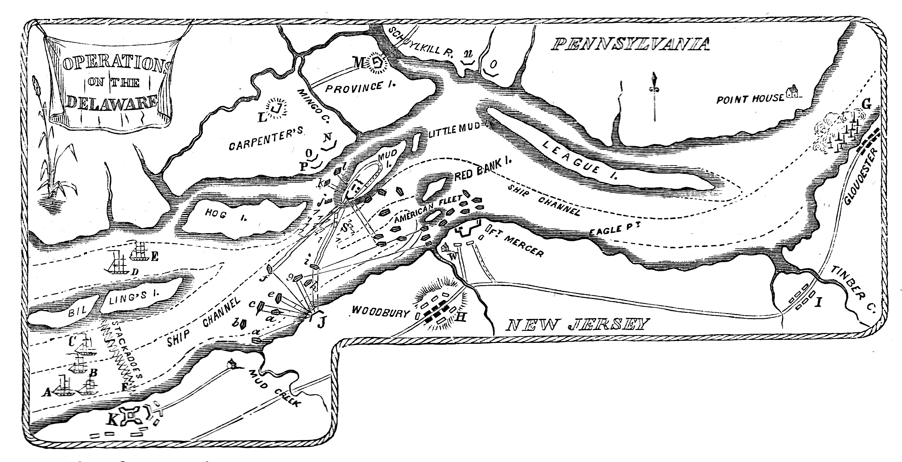 Map of operations on the Delaware River at Philadelphia, PA Oct-Nov, 1777. Explanation of the Map.—This shows the main operations upon the Delaware between the middle of October and tho close of November, 1777. Fort Mifflin is seen on the lower end of Mud Island. A, B, two British transports; C, the Experiment; D, the Vigilant frigate; E, the Fury sloop; F, a passage opened through the stockadoes at Billingsport; G, American fleet burned at Gloucester; H, the village of Woodbury and Cornwallis's encampment on the 21st of November, 1777; I, camp on the 24th, between the branches of Timber Creek ; J, a battery of two eighteen pounders and two nine pounders; K, fort at Billingsport, Colonel Stirling's corps, and Cornwallis's camp on the 18th of November; L, redoubt, on Carpenter's Island; M, on Province Island, to cover the bridge in the direction of Philadelphia; N, a battery of six twenty-four pounders, one eight-inch howitzer, and one eight-inch mortar; 0, a battery with one eight-inch howitzer and one eight-inch mortar; P, a battery with one thirteen-inch mortar; n, two twelve pounders ; o, one eighteen pounder ; S, stockadoes in the channel in front of Fort Mifflin ; a, a small vessel; b, wreck of the Merlin; r, the Liverpool; d, Cornwallis galley; e, the Pearl; f, the Somerset ; g, the Roebuck; h, wreck of the Augusta; i, the Iris; j, ship sunk; k, the Vigilant; I, the Fury; W, the Whitall house, just below Fort Mercer. The parallelograms around Fort Mercer denote the attack by Donop, on the 22d of October. The small island between Red Bank Island and the Jersey shore in Woodbury Island, on which the Americans erected a small battery. The creek, just below Fort Mercer, is Woodbury Creek, a deep and sluggish stream, near the Delaware.